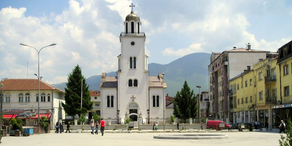 Holy Mother of God Orthodox Church in the city of Gostivar, Macedonia